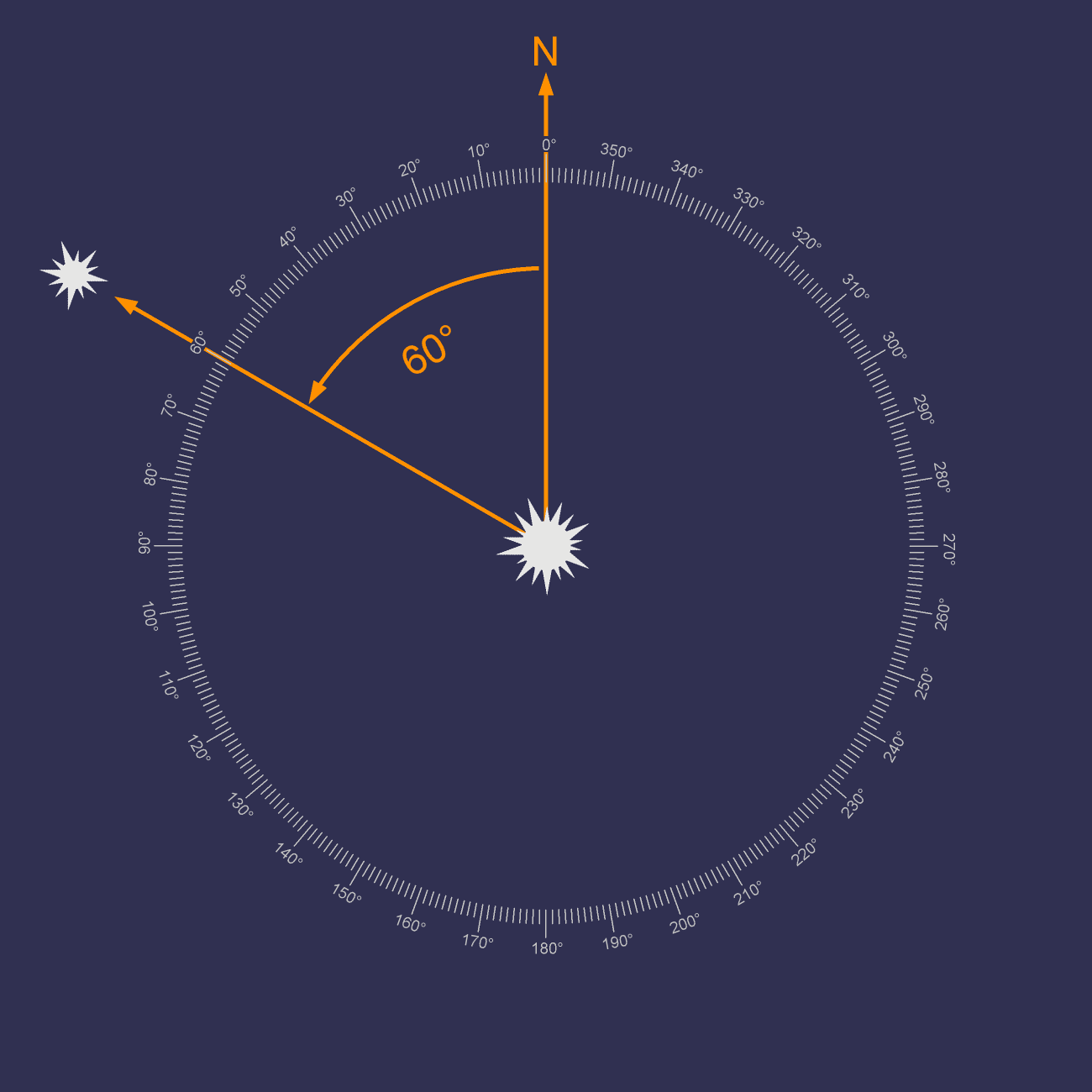 The position angle describes the direction on the celestial sphere in which a secondary object appears with respect to a primary object. The position angle is counted counterclockwise, starting at the direction towards the north celestial pole.